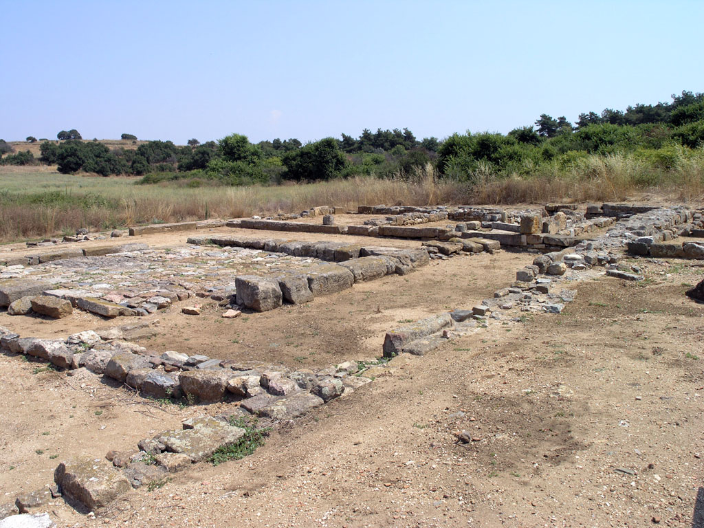 Hellenistic and Roman house with central paved courtyard in Abdera, Greece. Photograph taken by Marsyas on 07/24/2004.